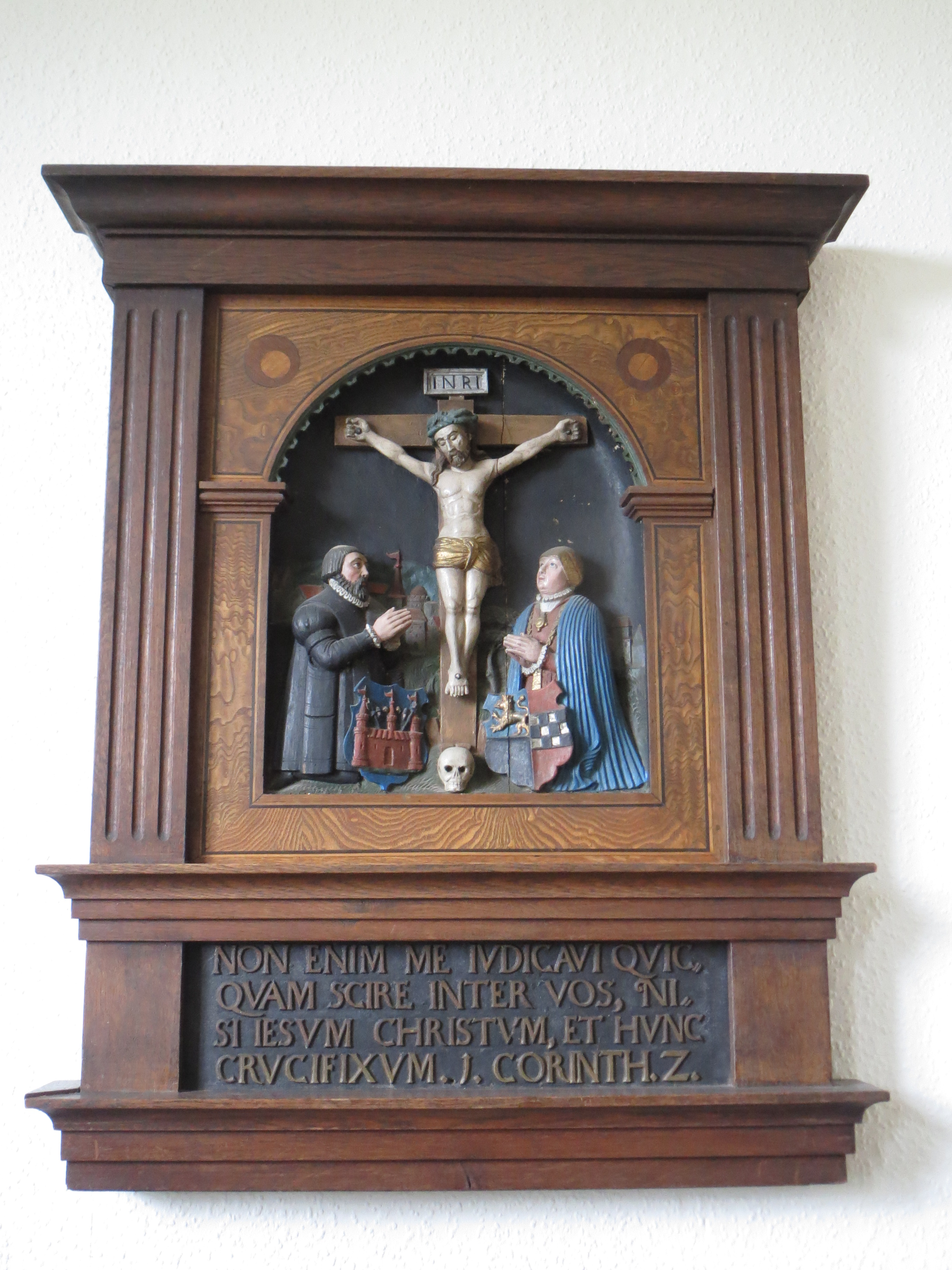 Pulpit part formerly in St. Jakobi Lübeck, then in Thomaskirche Tribsees, now in Parish Hall of Thomaskirche Tribsees